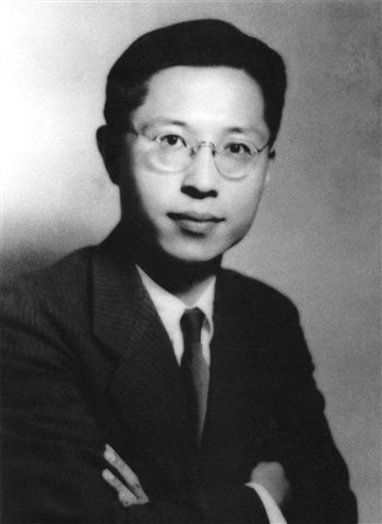 Young Cao Yu, Chinese writer.